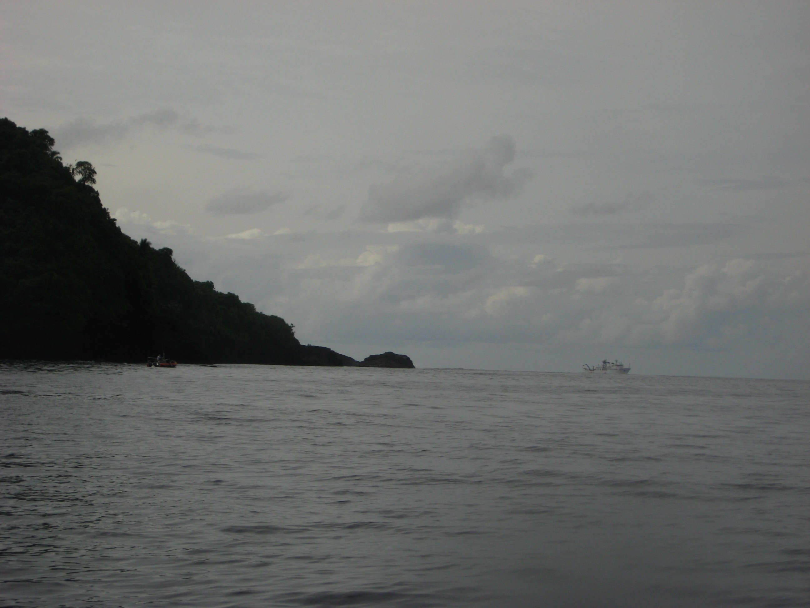 NOAA Ship HI'IALAKAI seen offshore at Fagatele Bay, American Samoa. View on the most southerly point of Samoa (excluding Rose Atoll, also of the US), named Steps Point.